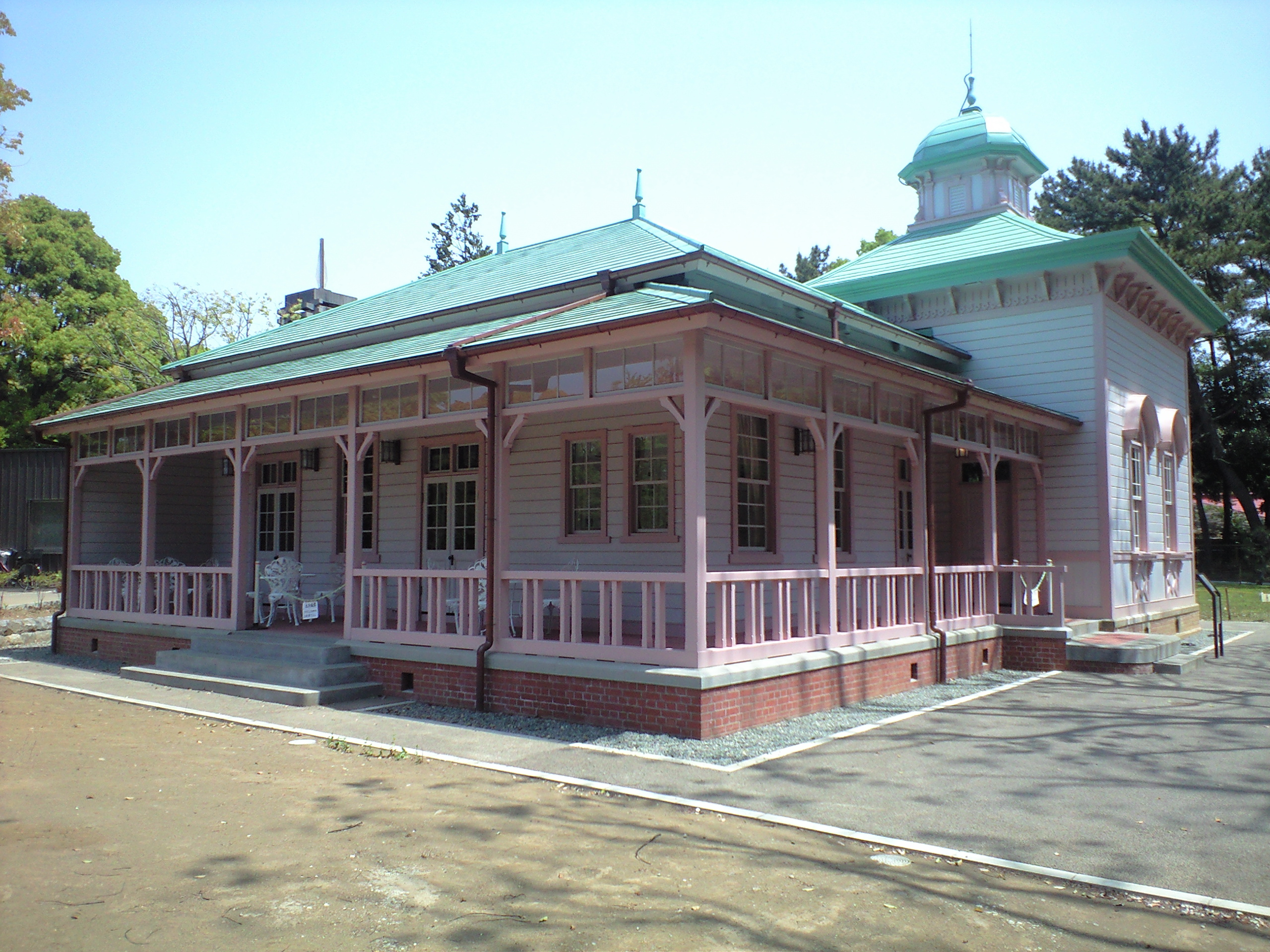 Yokohama Rubber Memorial Hall of Hiratsuka, Kanagawa, Japan